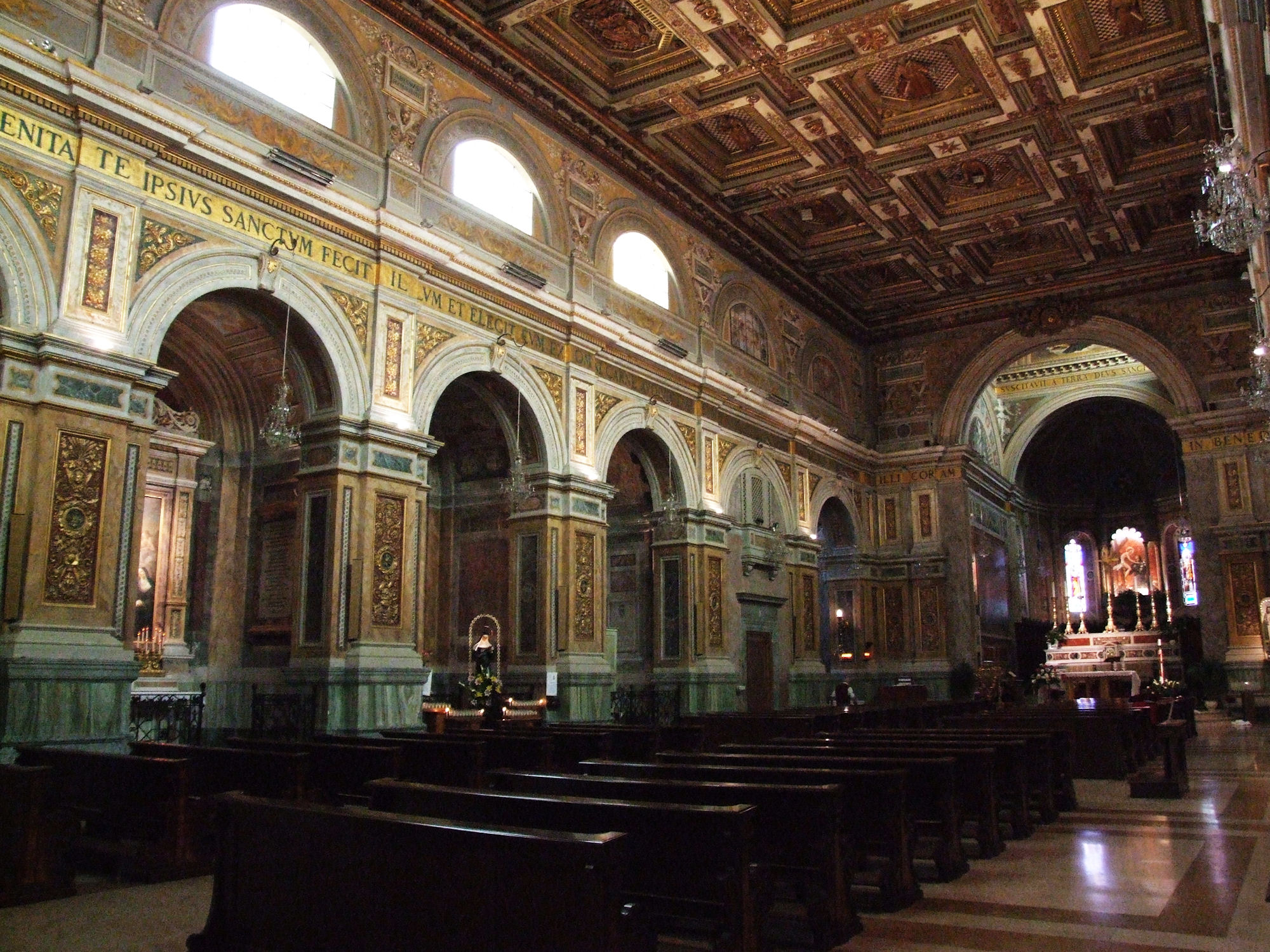 Basilique of San Nicola da Tolentino, Tolentino, Italy: interior. Basilica di San Nicola a Tolentino Native nameBasilica di San Nicola da TolentinoLocationTolentino, ItalyCoordinates43° 12′ 28″ N, 13° 17′ 06″ E Established14th-17th centuriesWeb page control : Q3635709 VIAF: 129156352 GND: 1087192536